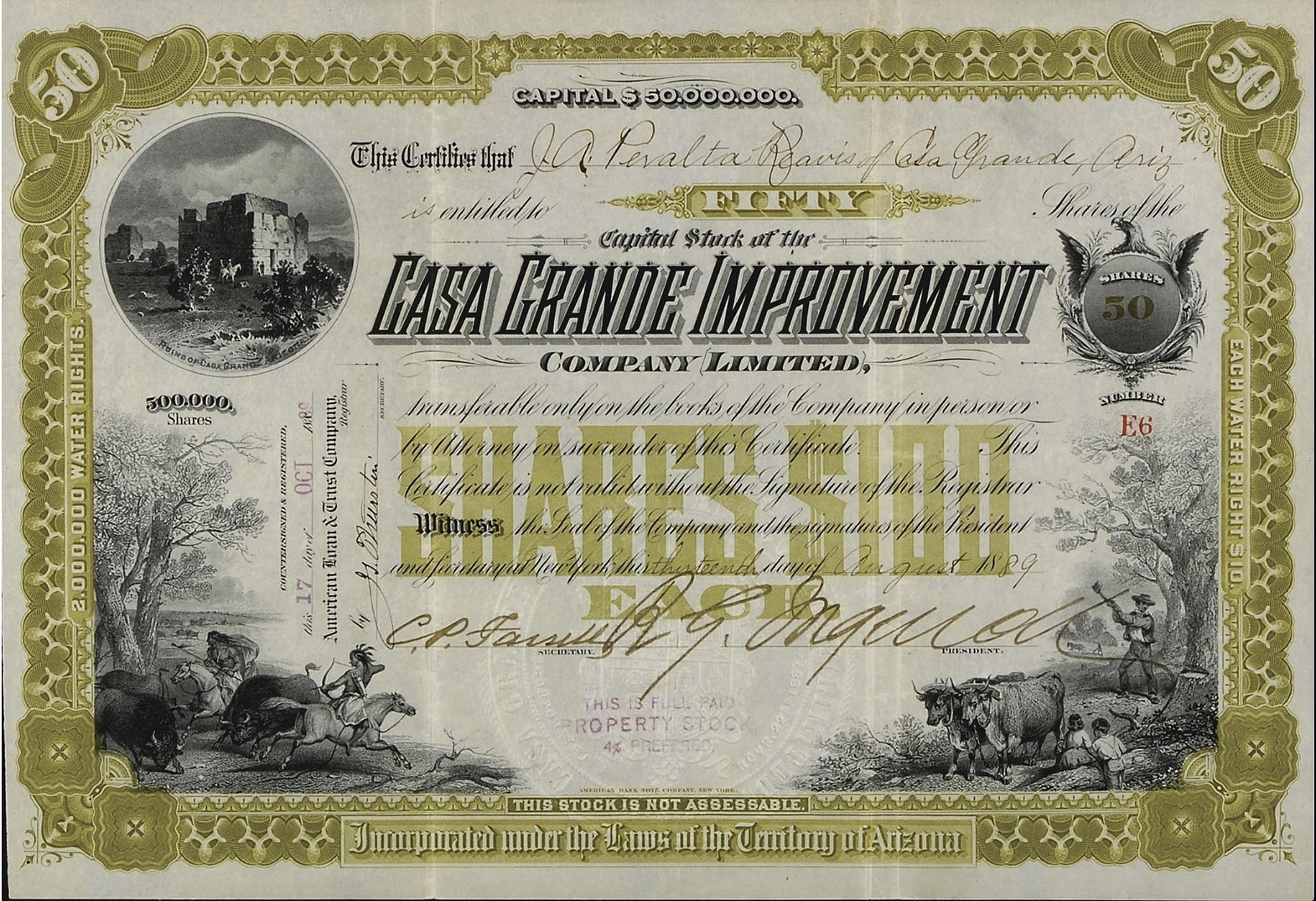 50 share certificate for the Casa Grande Improvement Company Limited, Territory of Arizona made out to J. A. Peralta Reavis and dated 1889-08-13. Bears registration mark dated 1889-10-17.